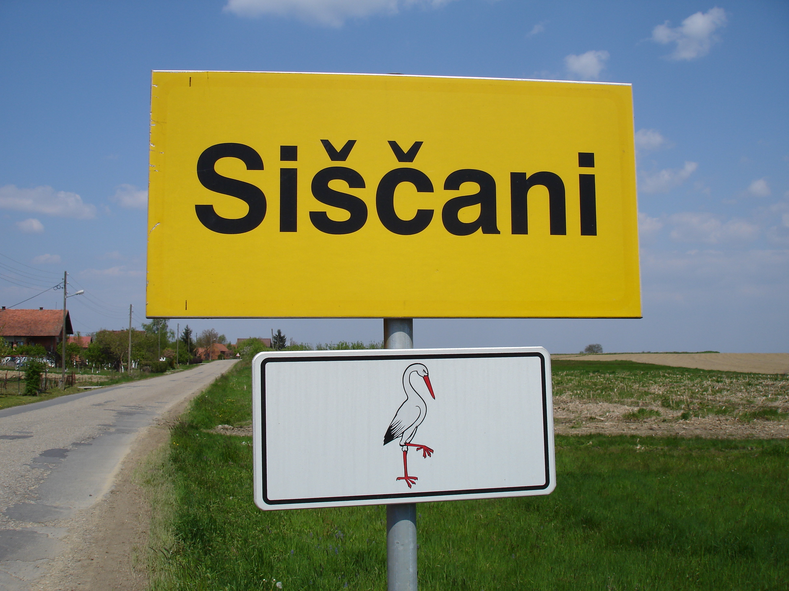 White Stork (Ciconia ciconia) on road sign in Sišćani